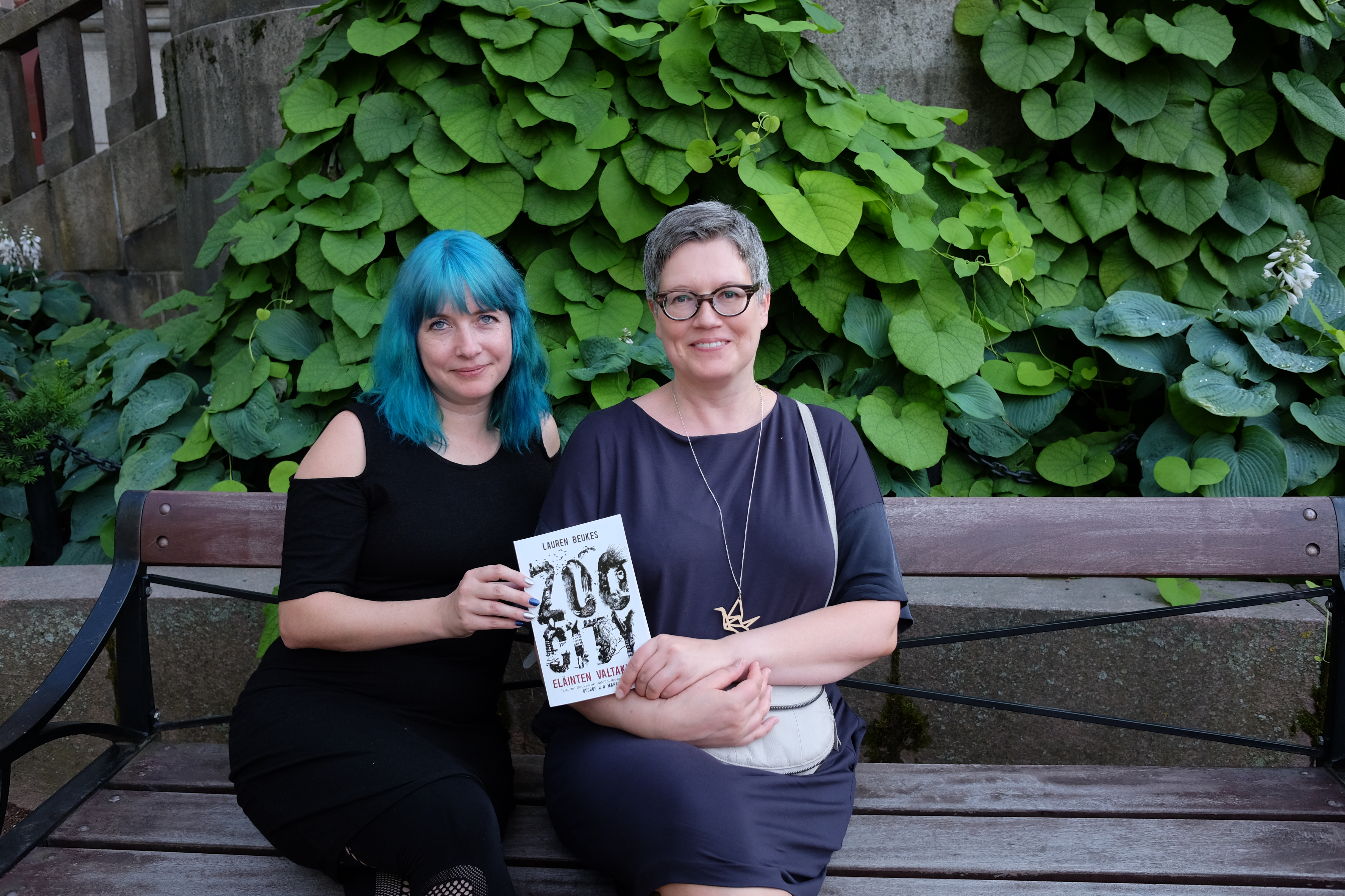 South African writer Lauren Beukes and Tytti Viinikainen, who translated the novel Zoo City to Finnish.